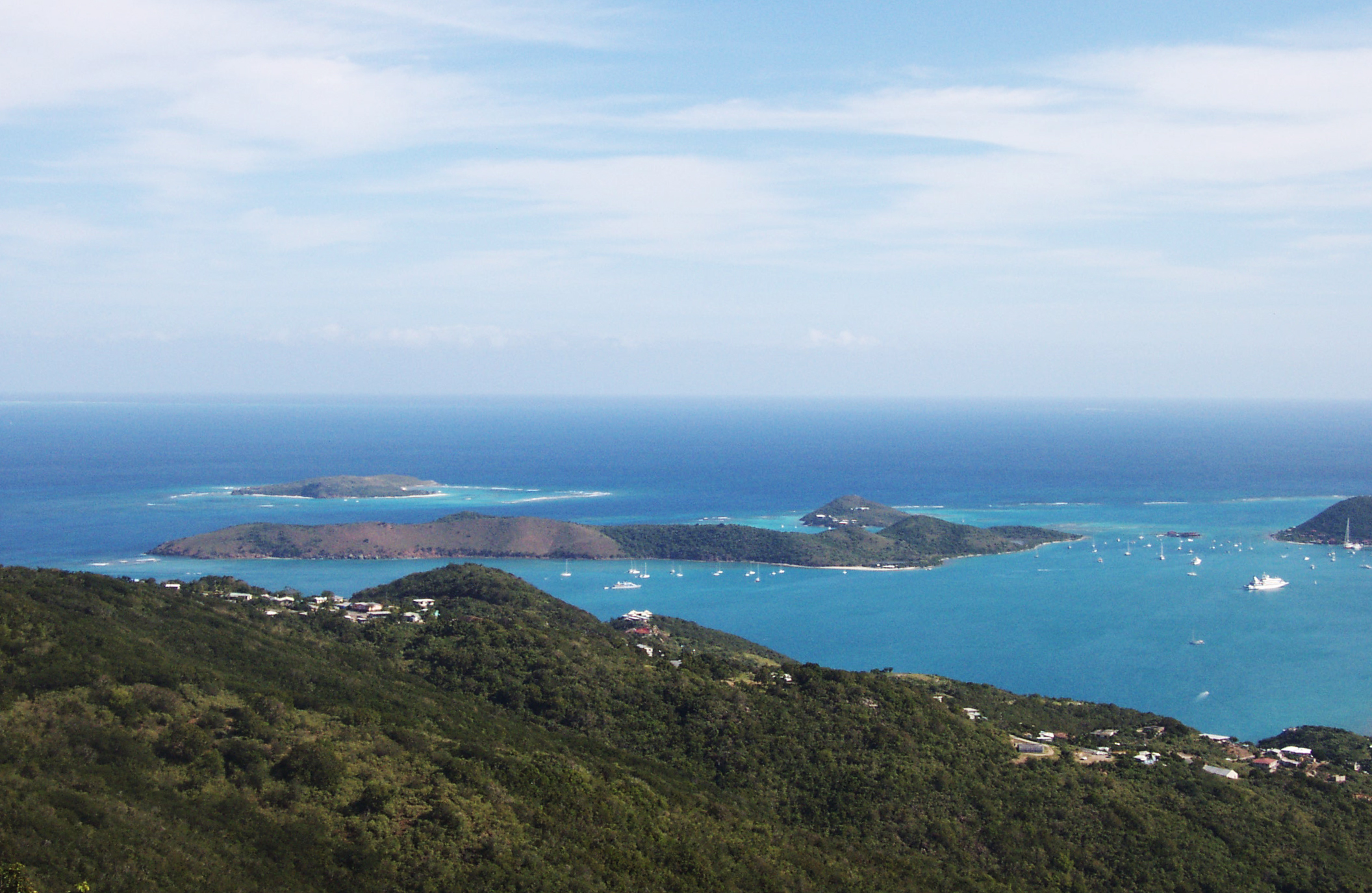 Description =Iles Vierges Source =Photo taken by Remi Jouan Date =Dècembre 2001 Author =Remi Jouan